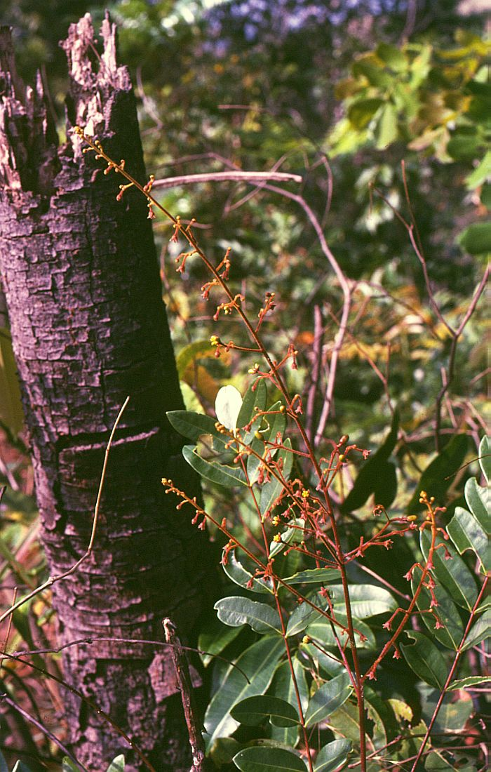 Eurycoma longifolia, Simaroubaceae - Kambodscha/Cambodia, bei den Stromschnellen (rapids) des Flusses Tek Chhou N Kampot (Prov. Kampot)